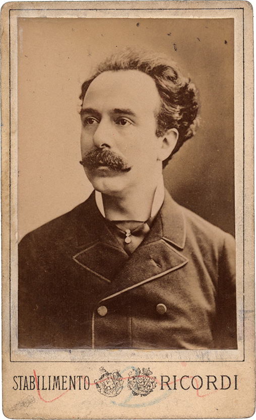 Portrait of Franco Faccio, composer (1840-1891). Photo by unknown, before 1891.